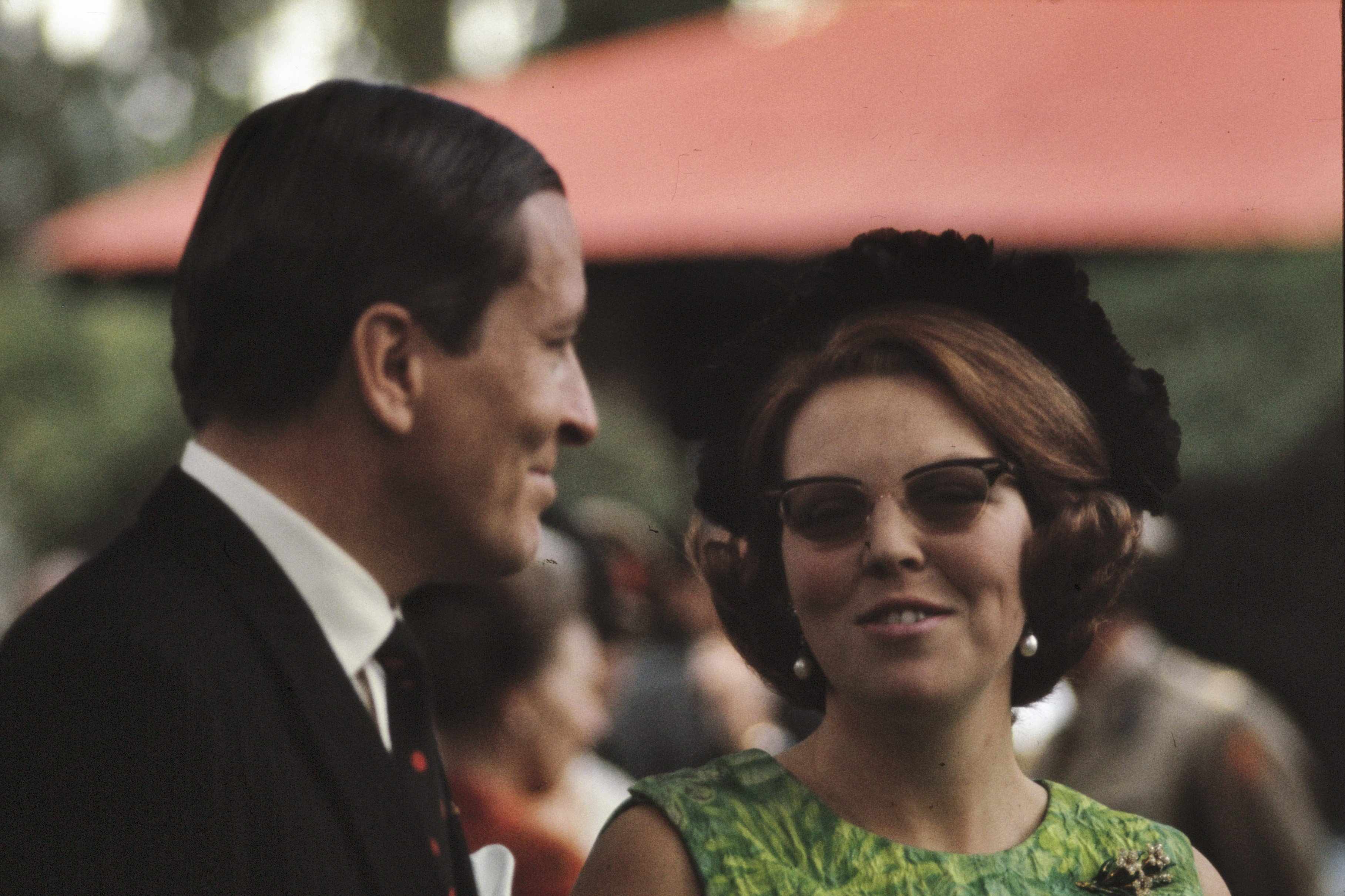 Princess Beatrix (Netherlands) and Prince Claus at the Dutch Embassy in Ethiopia, 31 Jan. 1969